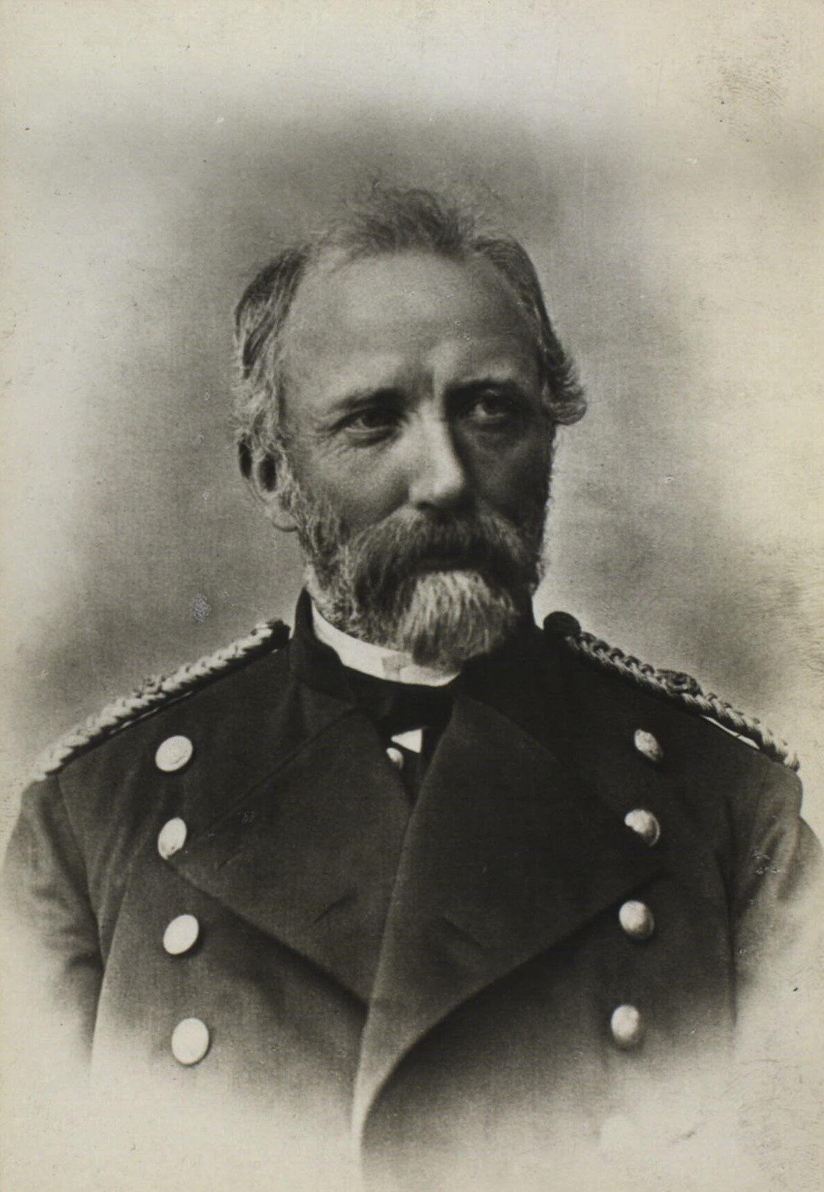 Danish Minister of Justice, district officer Nicolai Reimer Rump (1834-1900)